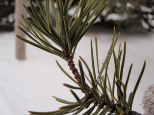 Jackpine's leaf Feuilles de Pin gris